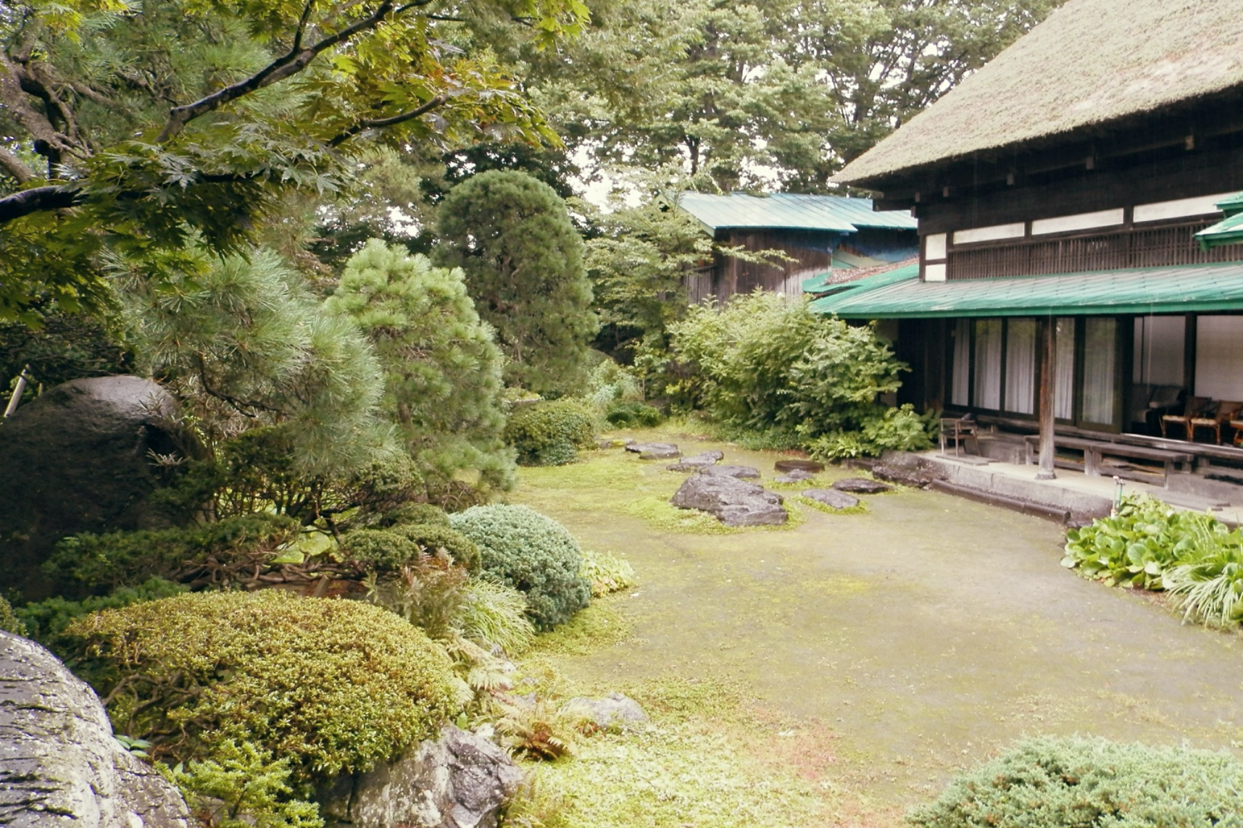 Seitō Shoin Teien gardens in the city of Hirakawa, Aomori Prefecture, Japan